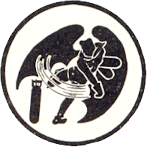 Emblem of the 318th Bombardment Squadron (World War II)